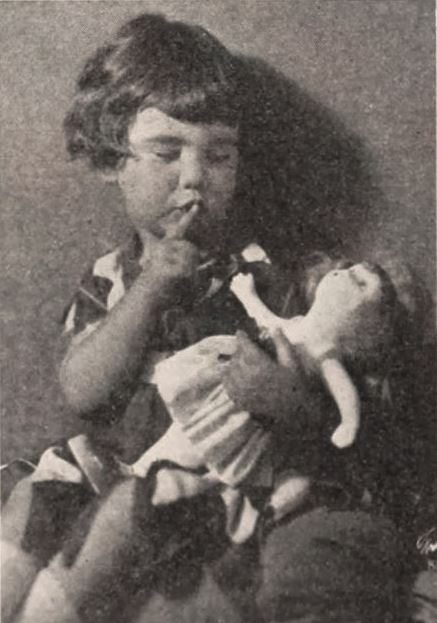 Baby Peggy aka child actress Diana Serra Cary, on page 48 of the June 24, 1922 Exhibitors Herald.